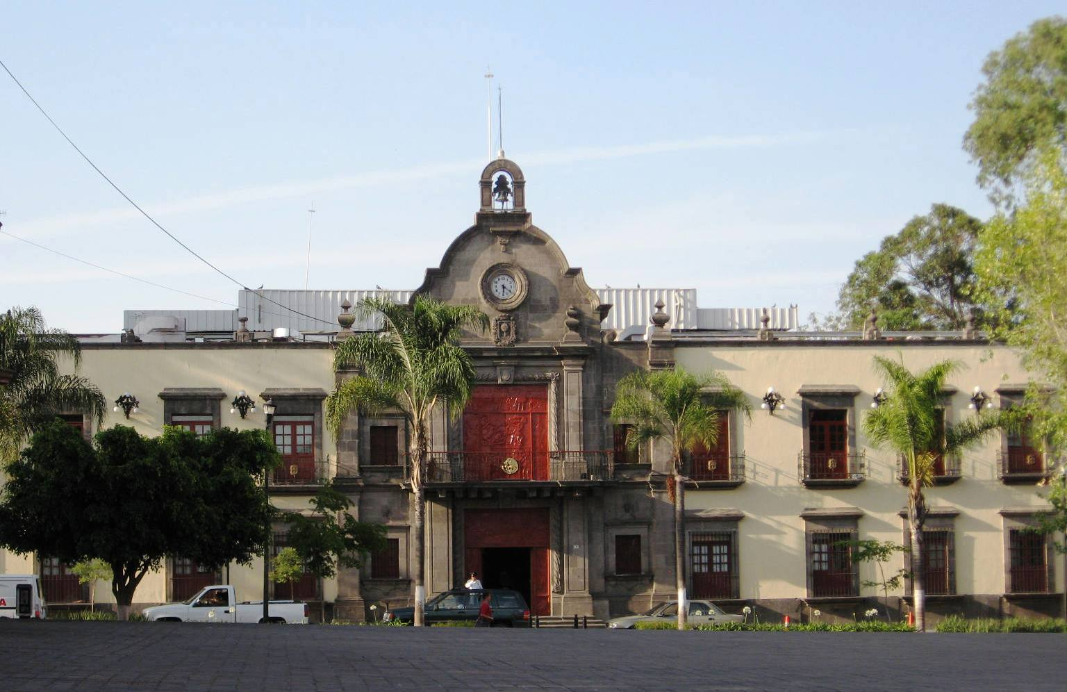 Municipal Palace of Zapopan, Jalisco in Mexico.